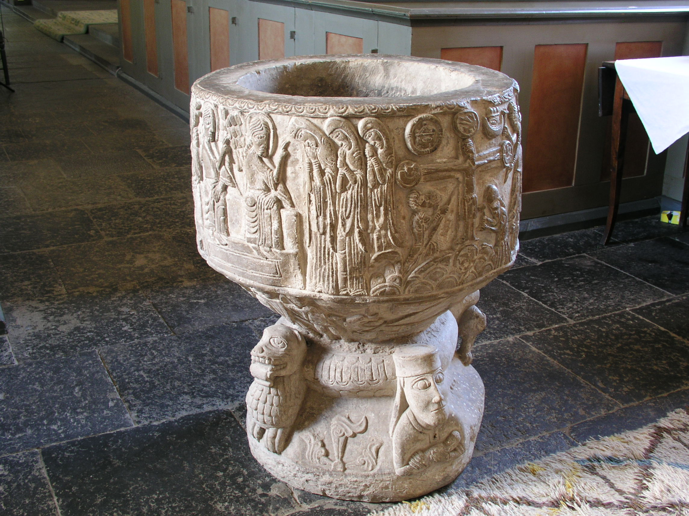 Löderup church, Diocese of Lund, Ystad, Sweden. Baptismal font.